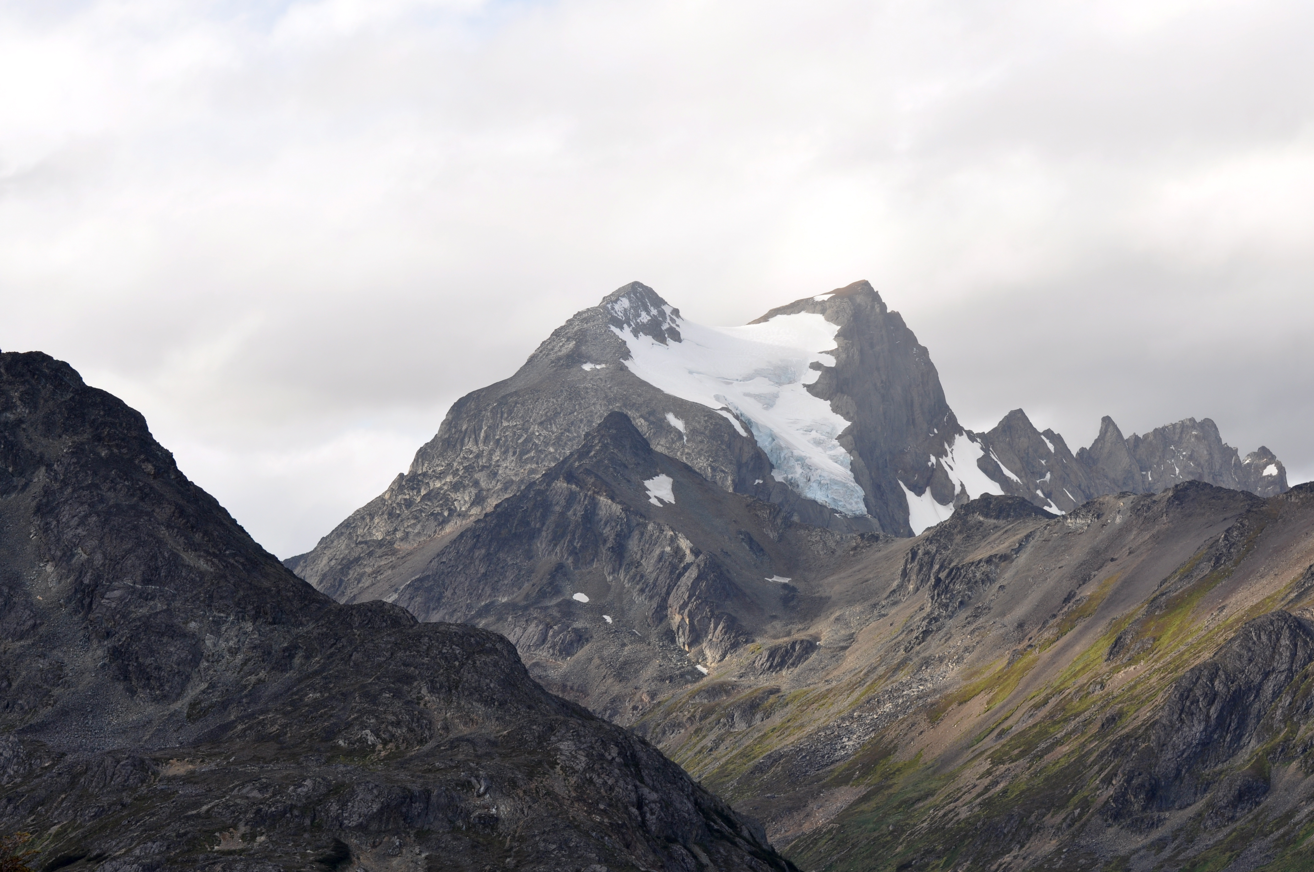 Cerro Vinciguerra - Cordon Vinciguerra, Valley de Andorra, Tierra del Fuego, Patagonia, Argentina.